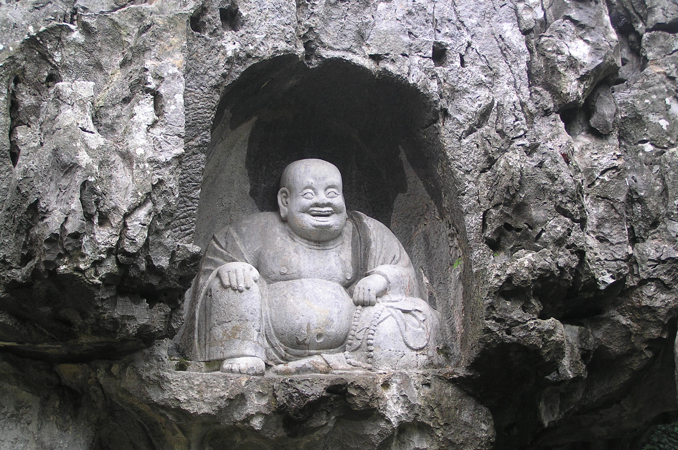 Carving of Maitreya (future Buddha) in Feilai Feng (The Peak that Flew from Afar) Caves (Hangzhou, China) Author: Mr. Tickle Date: 07/26, 2005